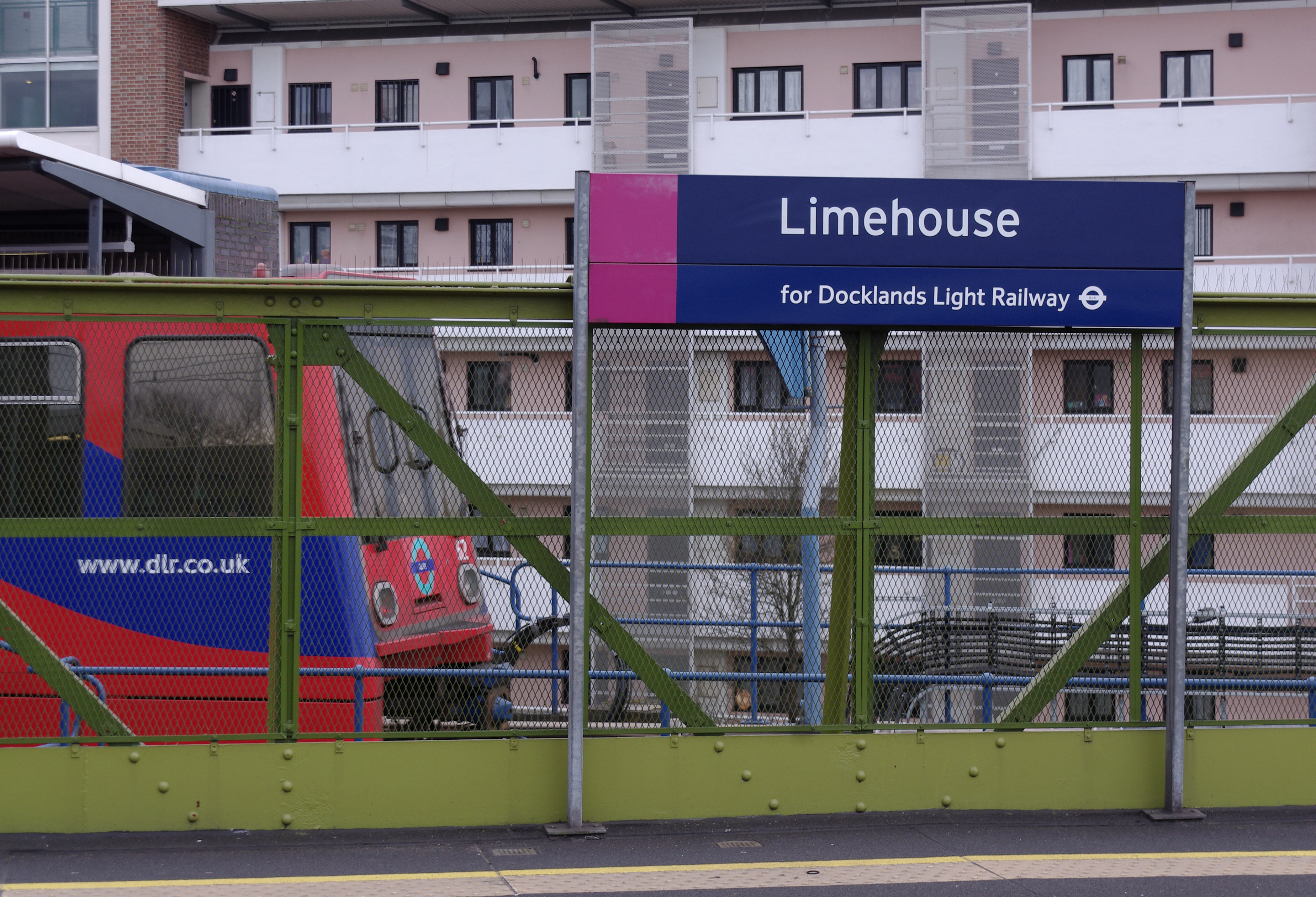 DLR type B92 EMU 62 arrives at Limehouse with an eastbound service.